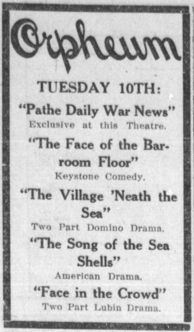 Films being show on November 10th 1914